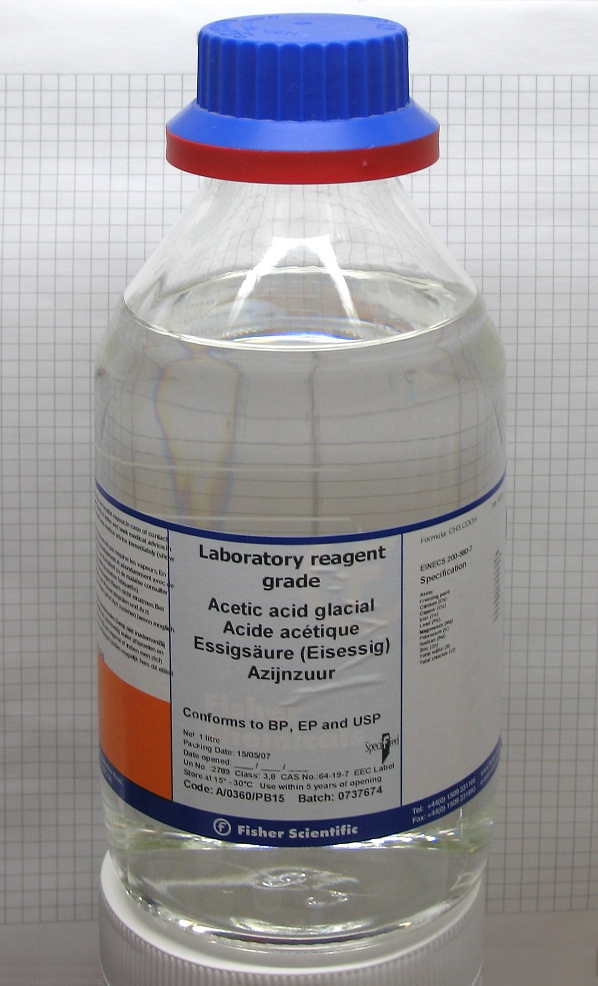 Acetic acid, reagent grade, 1 liter